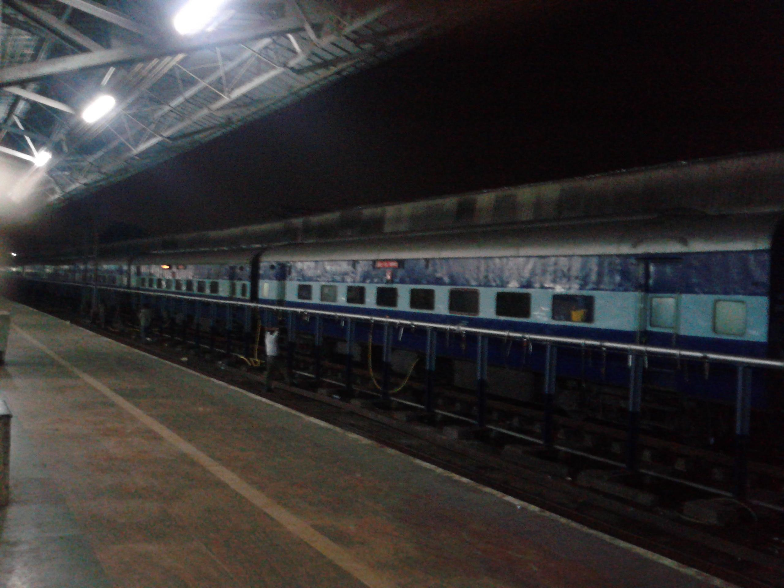 Yercaud exp at Chennai Central(MAS), taken by self on 30-01-13